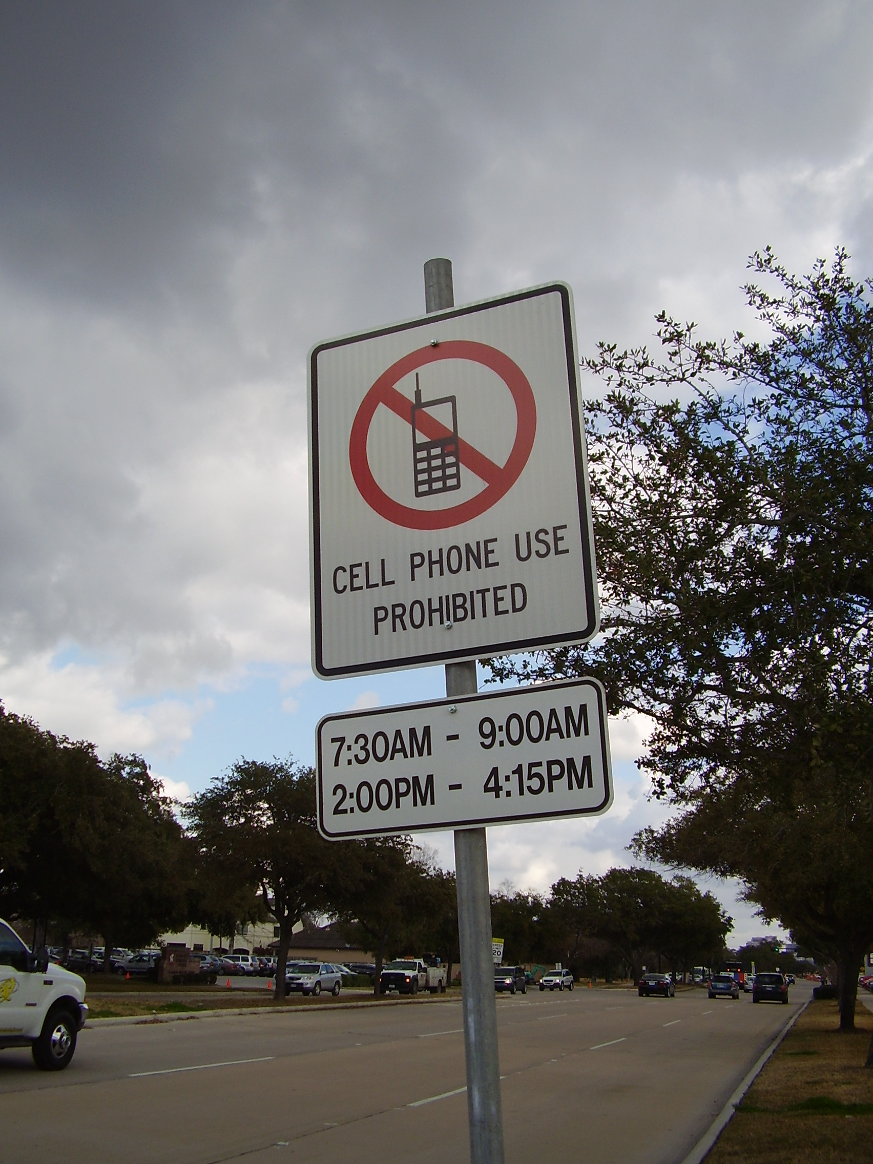 A sign along Bellaire Boulevard in Southside Place, Texas indicating that mobile phone usage is prohibited while driving from 7:30 AM to 9:30 AM and from 2:00 PM to 4:15 PM